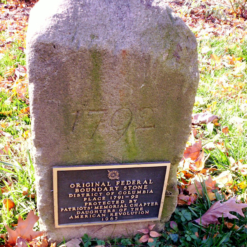 DC Boundary Stone Northwest Mile 7, that is the stone 7 miles northwest of the westernmost point of the original District of Columbia, with plaque added by the Daughters of the American Revolution. The stone was placed in 1791-1792 by Andrew Ellicott and Benjamin Banneker. for a map of these stones.